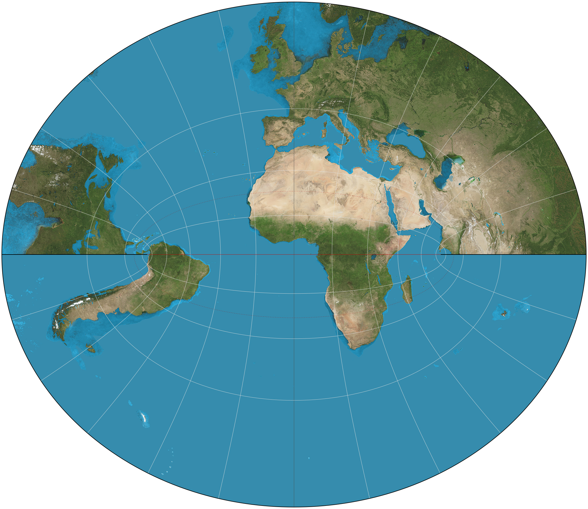 Littrow projection, partial hemisphere. 15° graticule. Imagery is a derivative of NASA’s Blue Marble summer month composite with oceans lightened to enhance legibility and contrast. Image created with the Geocart map projection software.